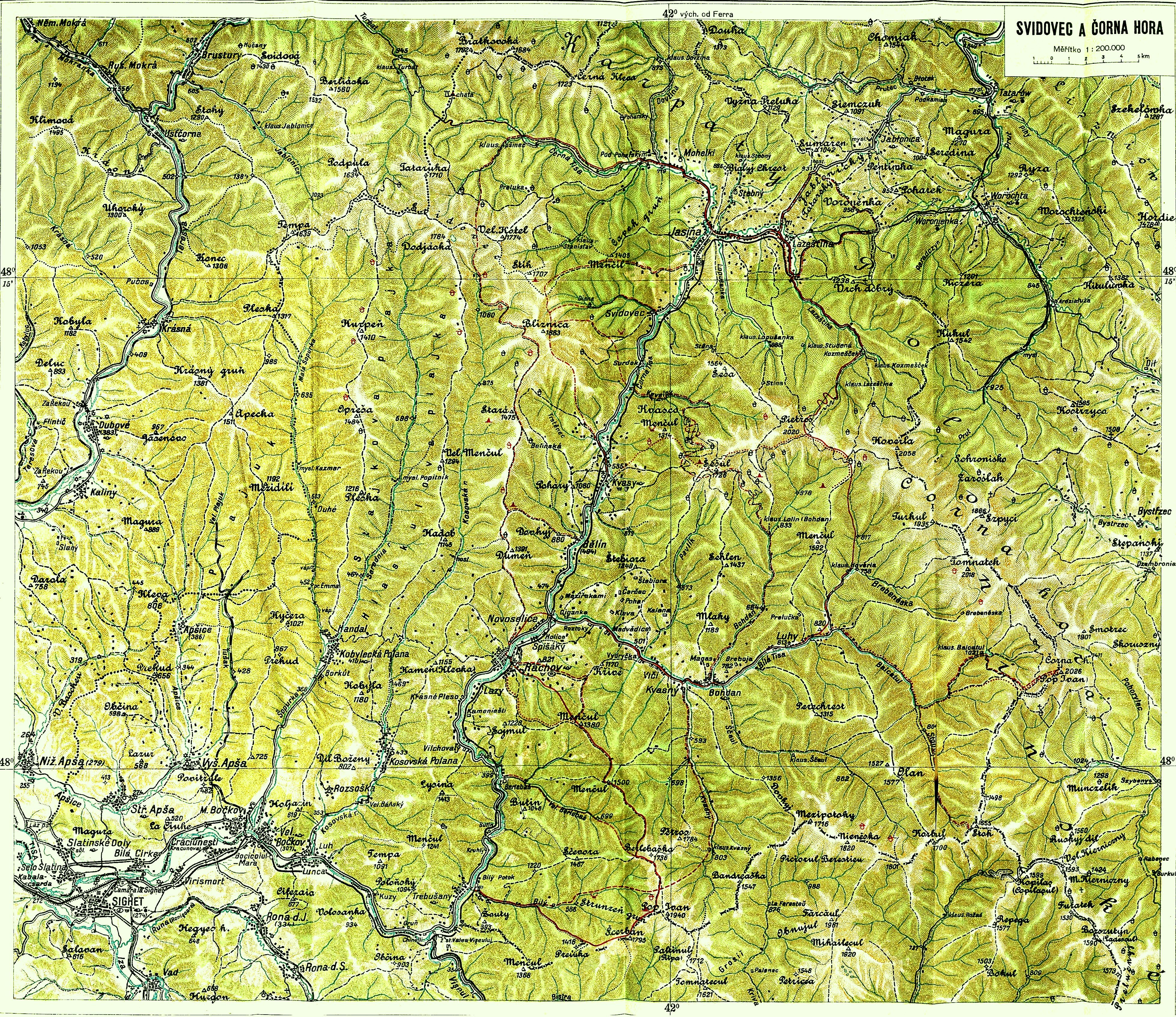 Map of Svidovec and Čorna hora (now in the Ukraininan part of the Carpathian Mountains) in 1933. The descriptions are in Czech.